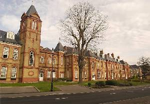 The Northern Convalescent Fever Hospital at Winchmore Hill, Enfield, was one of the two such hospital sites to be established by the Metropolitan Asylums Board, the other being the Southern Hospital near Dartford. The MAB had been set up in 1867 to administer care for certain categories of the sick poor in metropolitan London and between 1870 and 1900 set up a ring of infectious diseases hospitals around the capital. After the passing of the 1891 Public Health (London) Law Consolidation Bill, the MAB entered a period of expansion, of which the Northern was a part. The 36-acre site, formerly part of the Chaseville Park estate, was acquired by the Board in 1883-4. The partnership of Pennington and Bridgen were the architects for the new hospital whose foundation stone was laid in May, 1885. The hospital was opened on 25th September, 1887. In 2001, the building were converted into residential apartments.